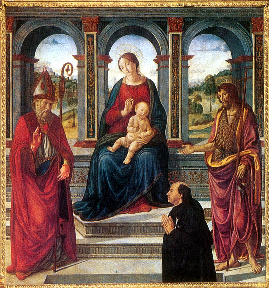 Pala of Cosimo Rosselli (1480) located in the Commenda di Sant'Eufrosino Church in Volpaia, Radda in Chianti, Siena